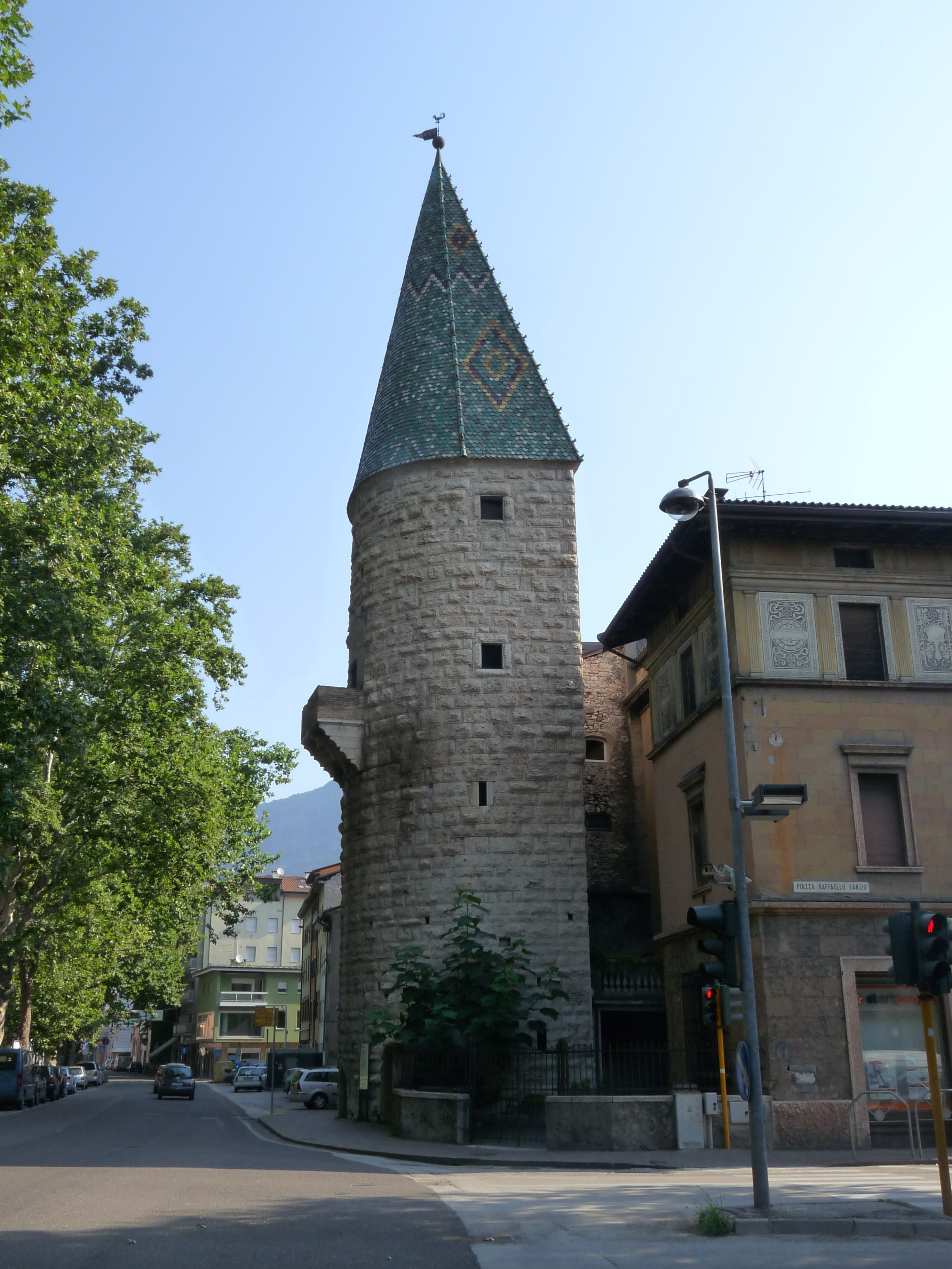 Trento (Italy): Torre Verde (Green Tower), XIII century, from S.